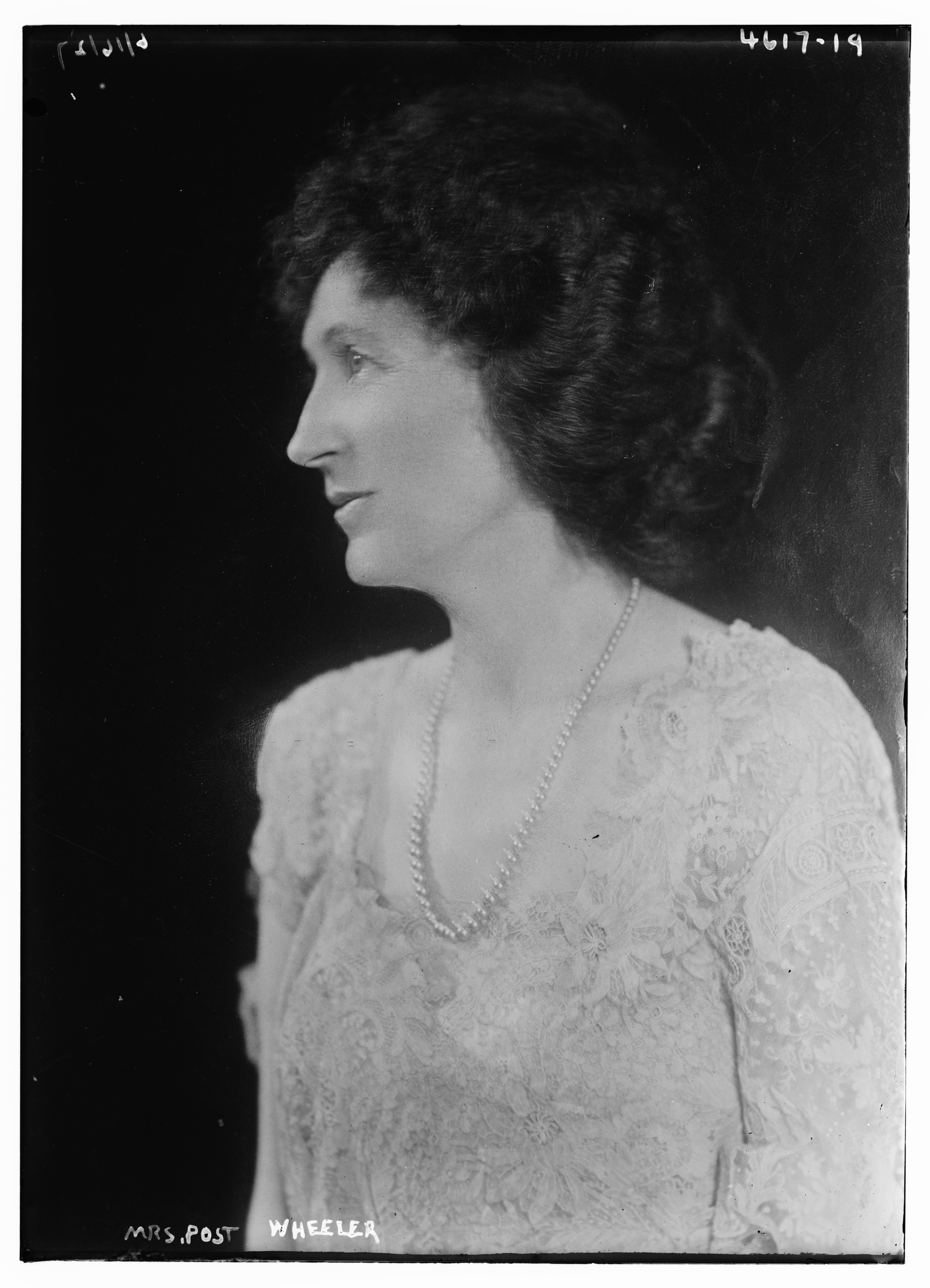 Hallie Erminie Rives in 1918